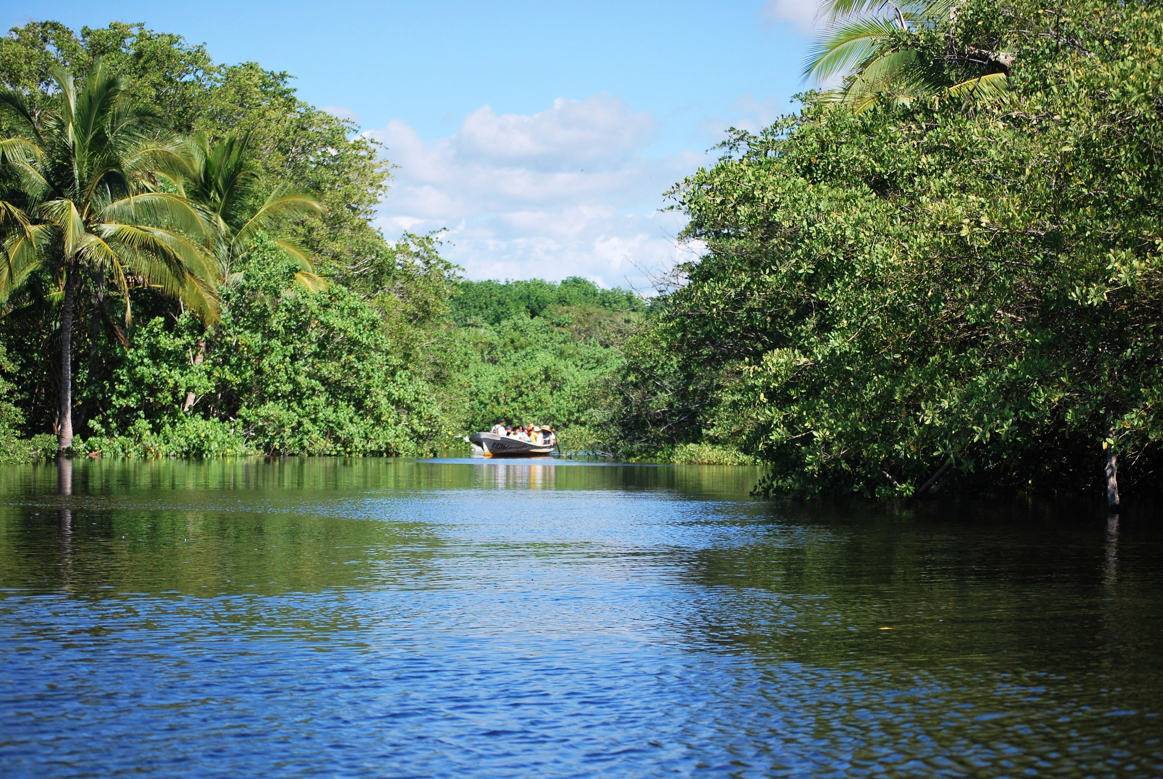 Channel from beach to lagoon at La Ventanilla, Tonameca, Oaxaca, Mexico